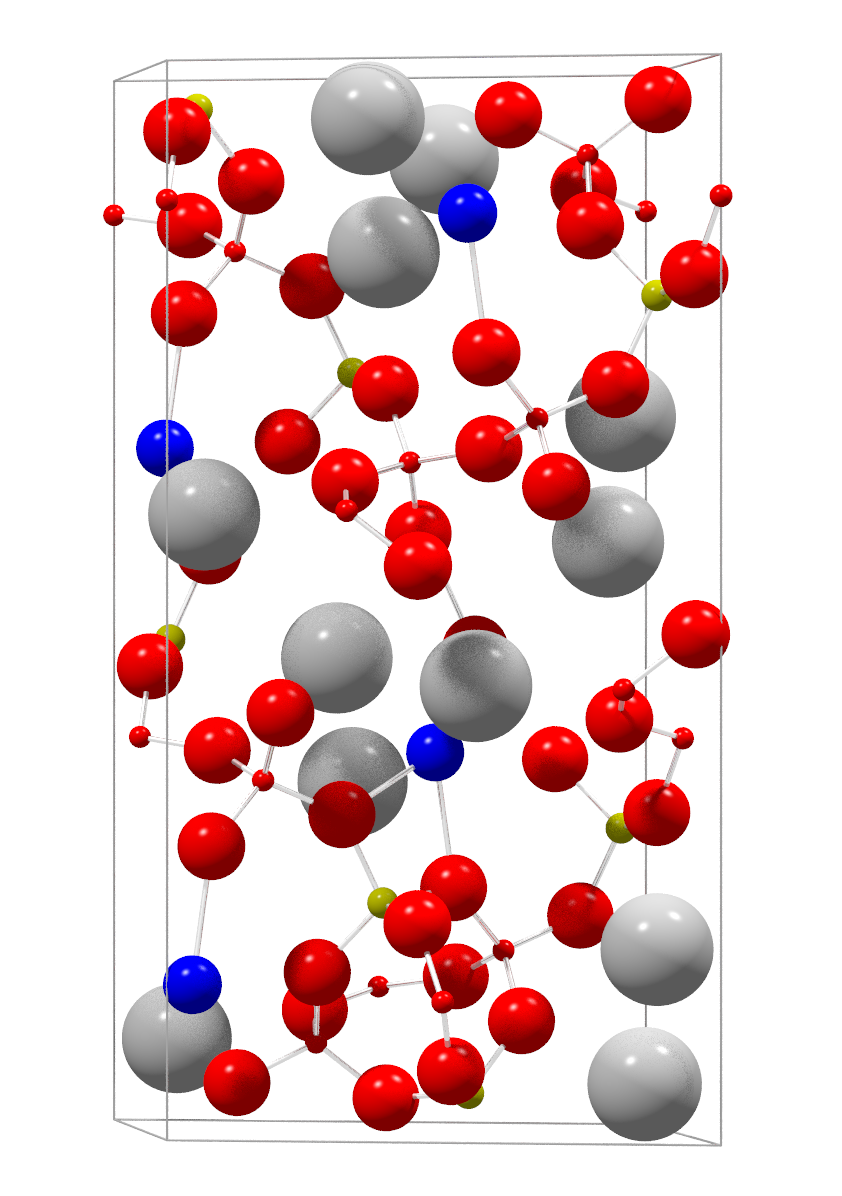 Structure of scolecite, American Mineralogist Crystal Structure Database "High-pressure structural behaviour of scolecite" Comodi P, Gatta G D, Zanazzi P F, "European Journal of Mineralogy" Vol. 14, 2002, pp 567-574